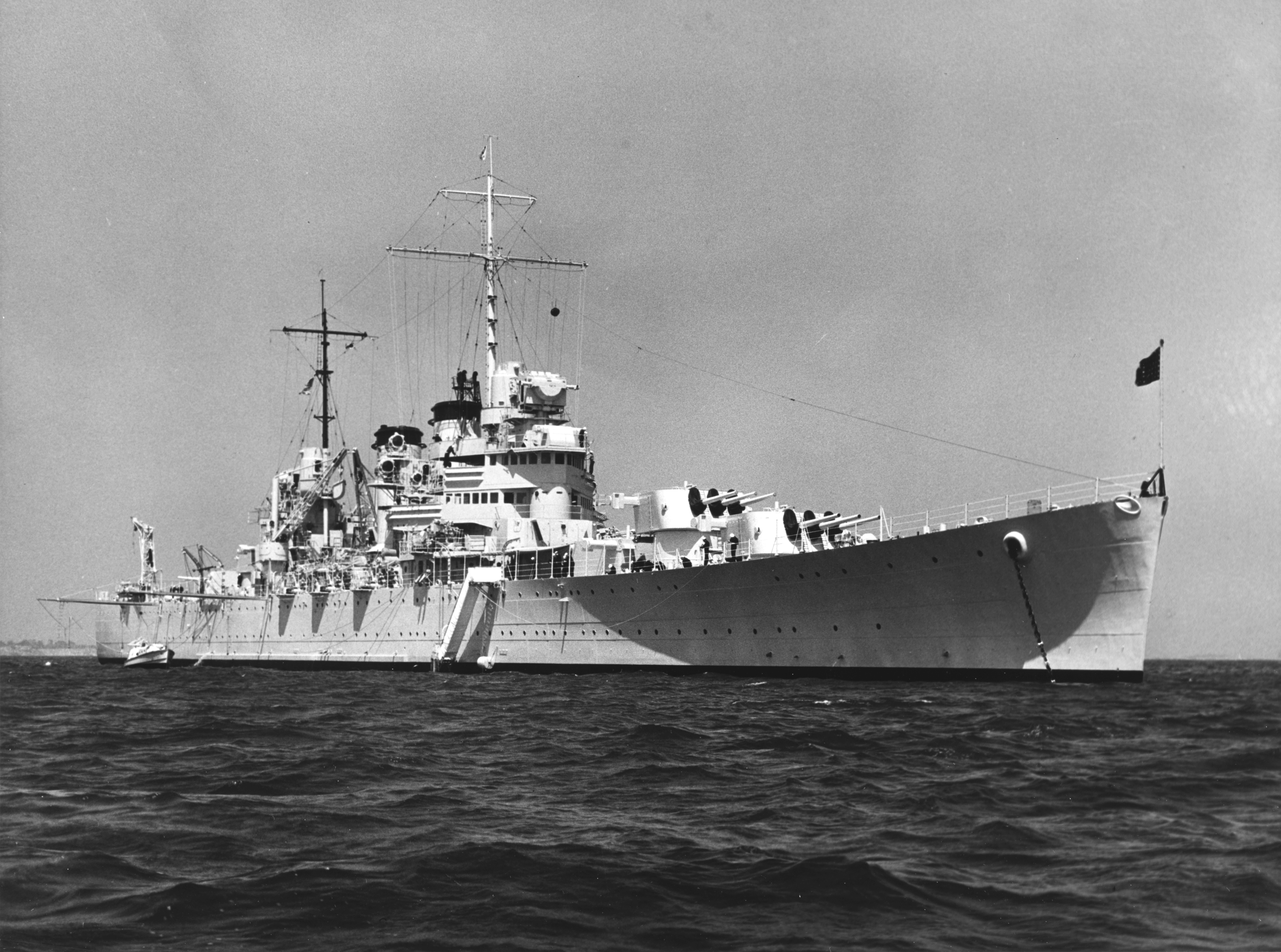 The U.S. Navy light cruiser USS Boise (CL-47) anchored in harbour, circa 1938-39.